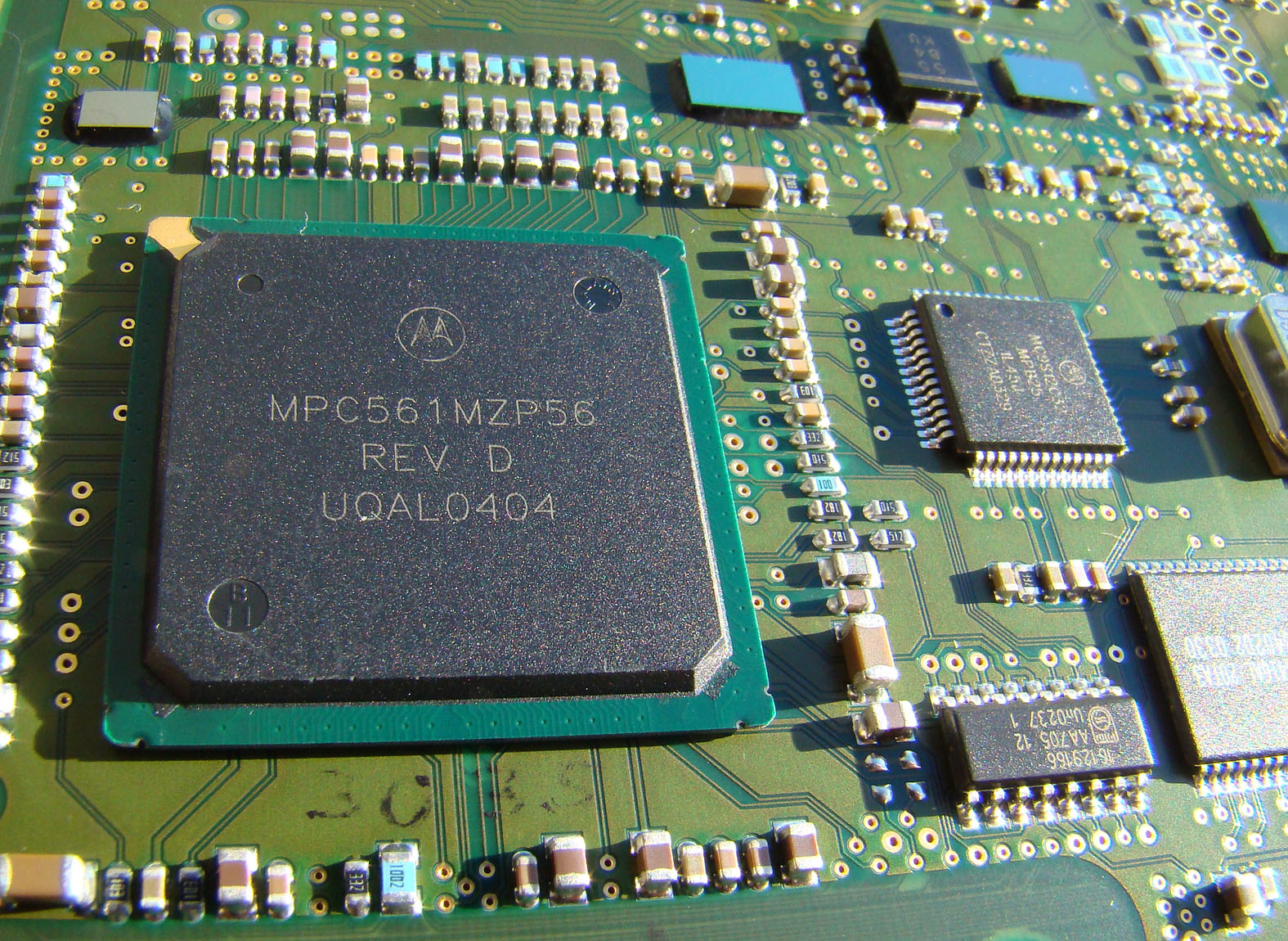 MPC561 CPU as used in a Delphi E38 ECM